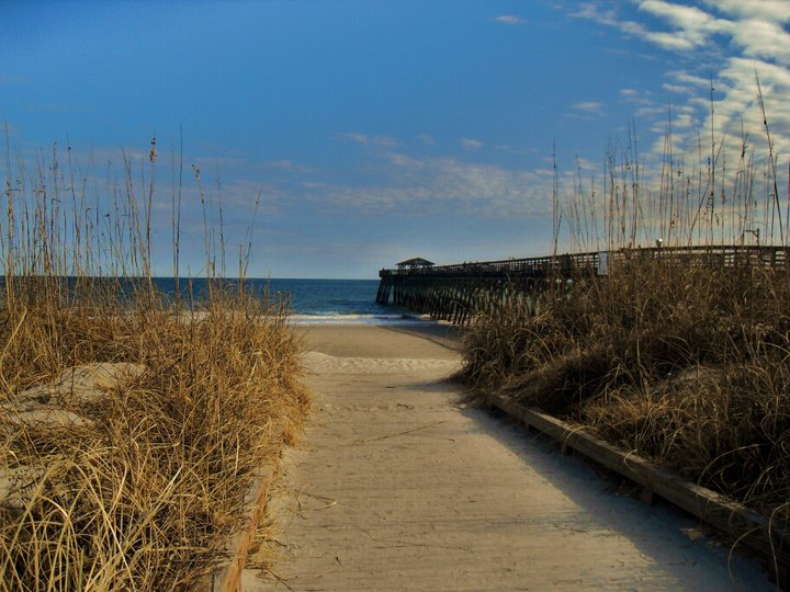 The ocean and boardwalk at Myrtle Beach State Park, near Myrtle Beach, South Carolina.